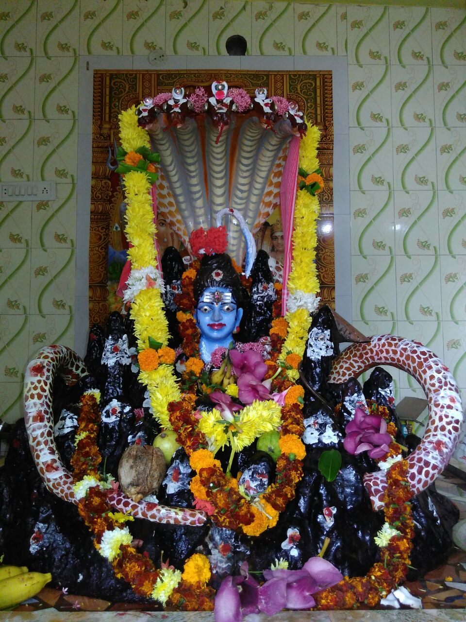 pancha muka siva nagendra swamy, Mudinepalli, Krishna district